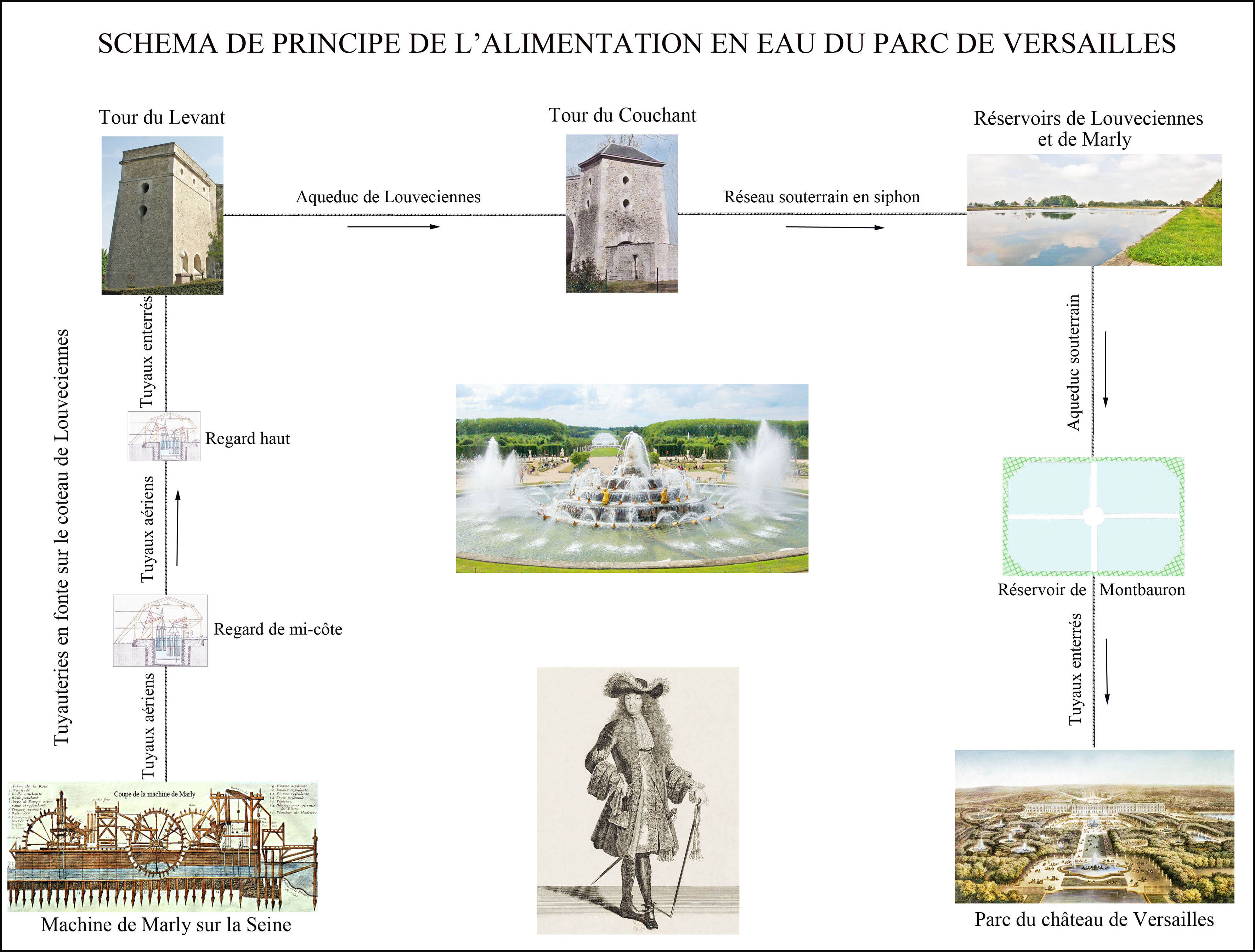 Water supply diagram for le Parc of Versailles.